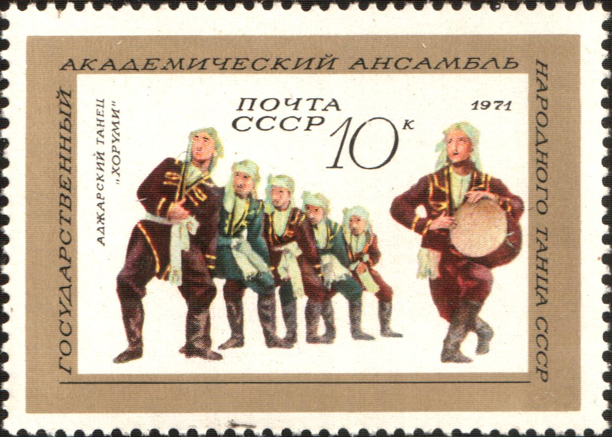 USSR stampː Adjarian Khorumi Dance (with Drummer). Seriesː Ensemble of Folk Dance of Igor Moiseyev (Founded 1937.02.10)